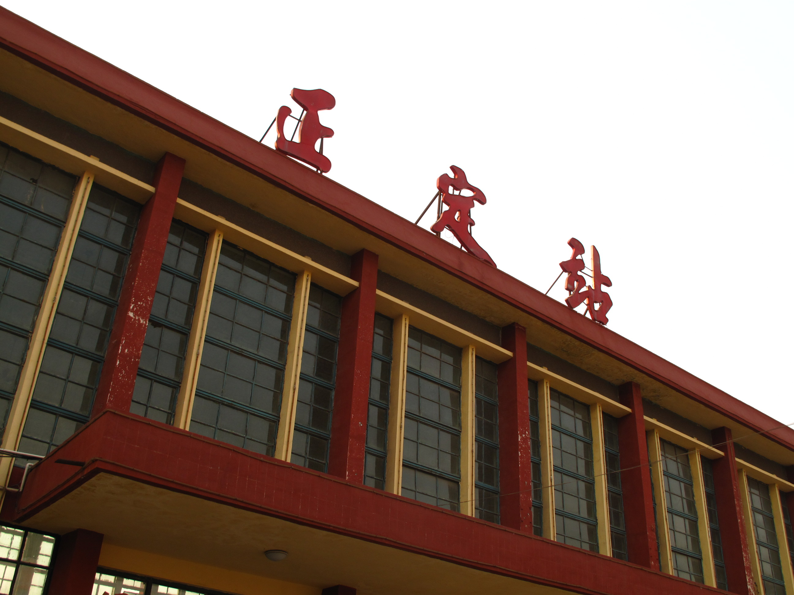 zhengding, hebei china Zhengding Railway Station 正定站